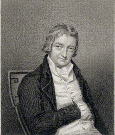 by Charles Theodosius Heath, after Bell, stipple engraving, (1809)